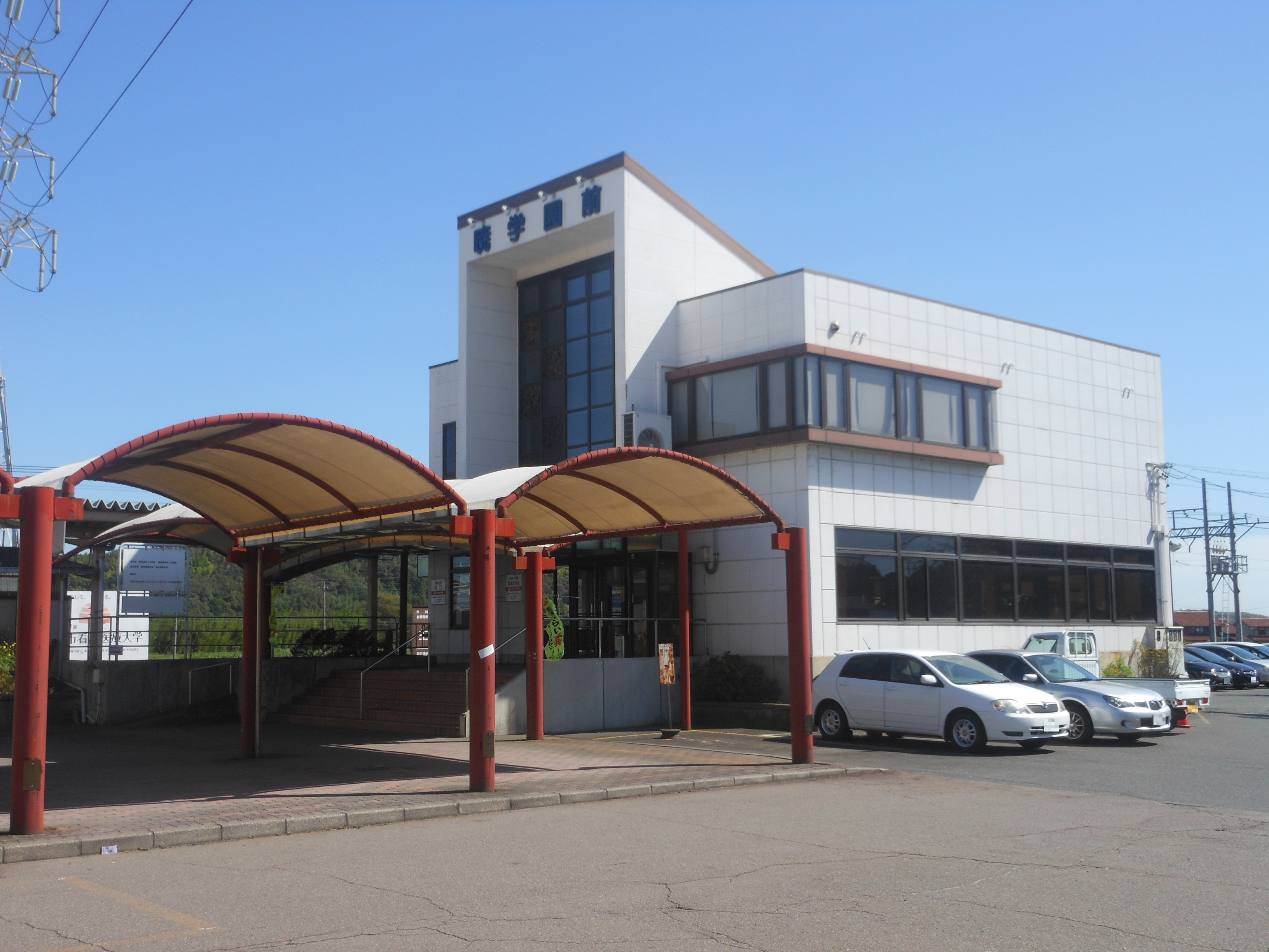 This is the Akatsuki Gakuenmae Station, which is in Yokkaichi, Mie, Japan.